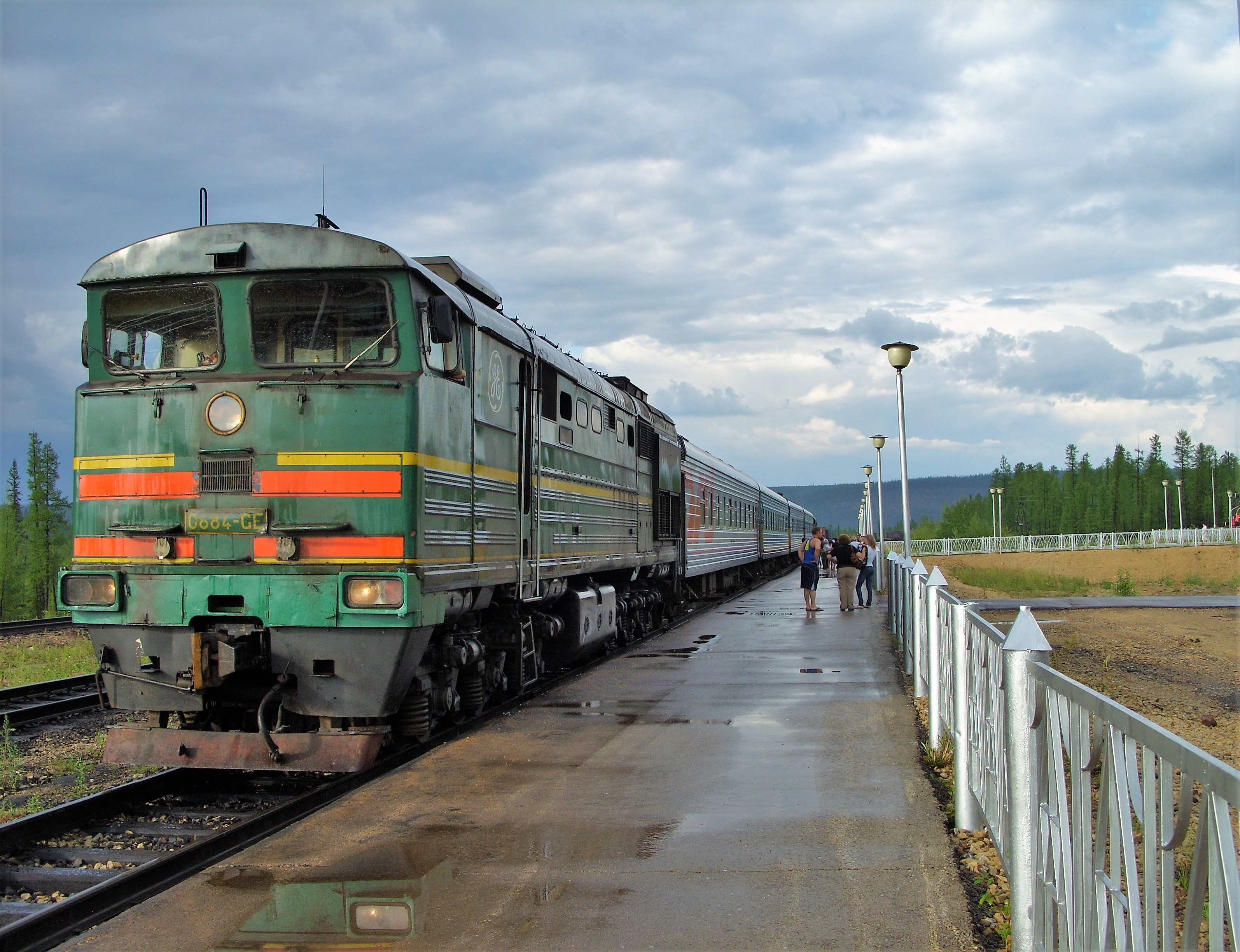 Diesel locomotive 2ТЭ10МGE-0884 with passenger train No 323 Tommot - Neryungri at station Tommot, July, 2011